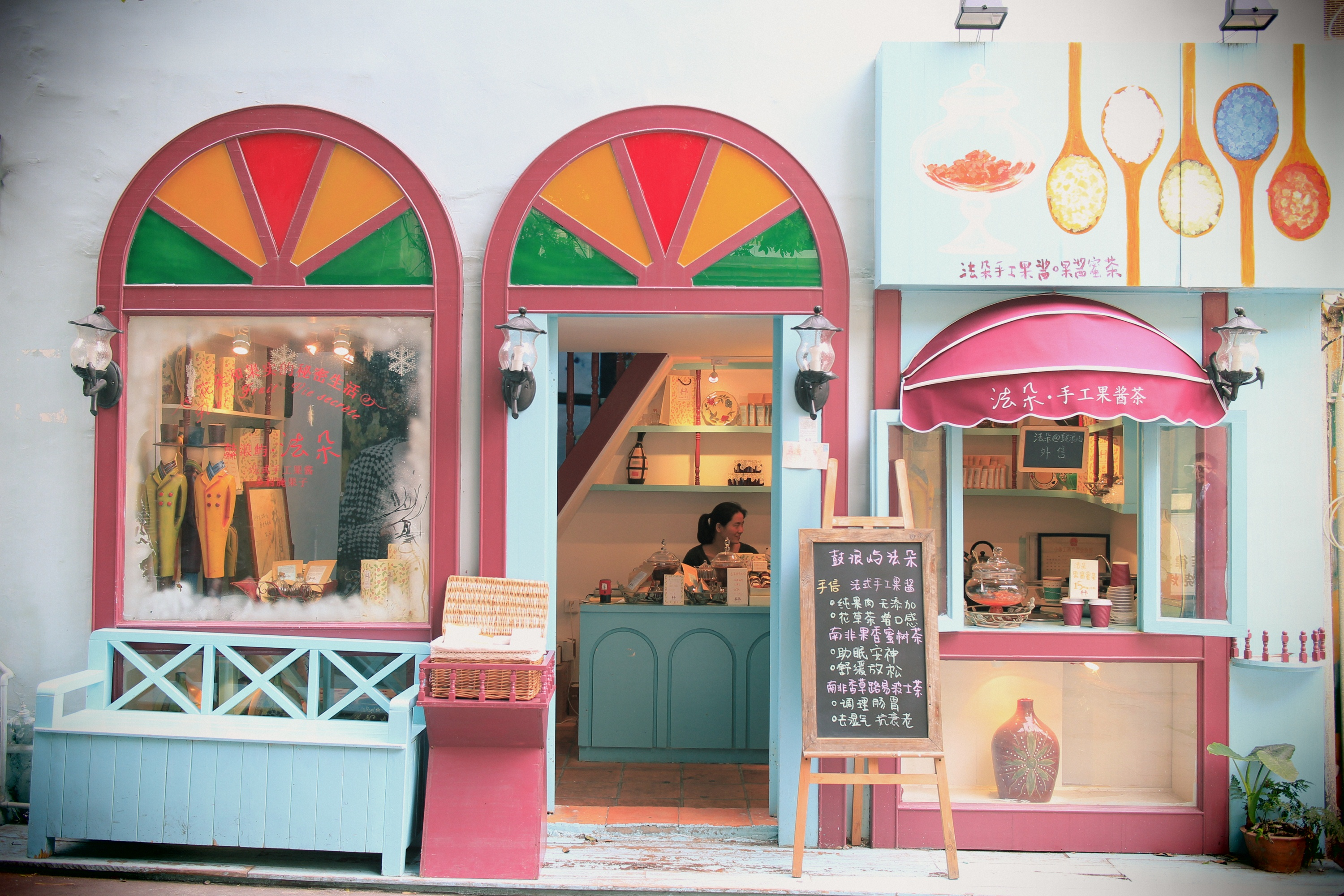 A local store on Gulangyu, Xiamen, China